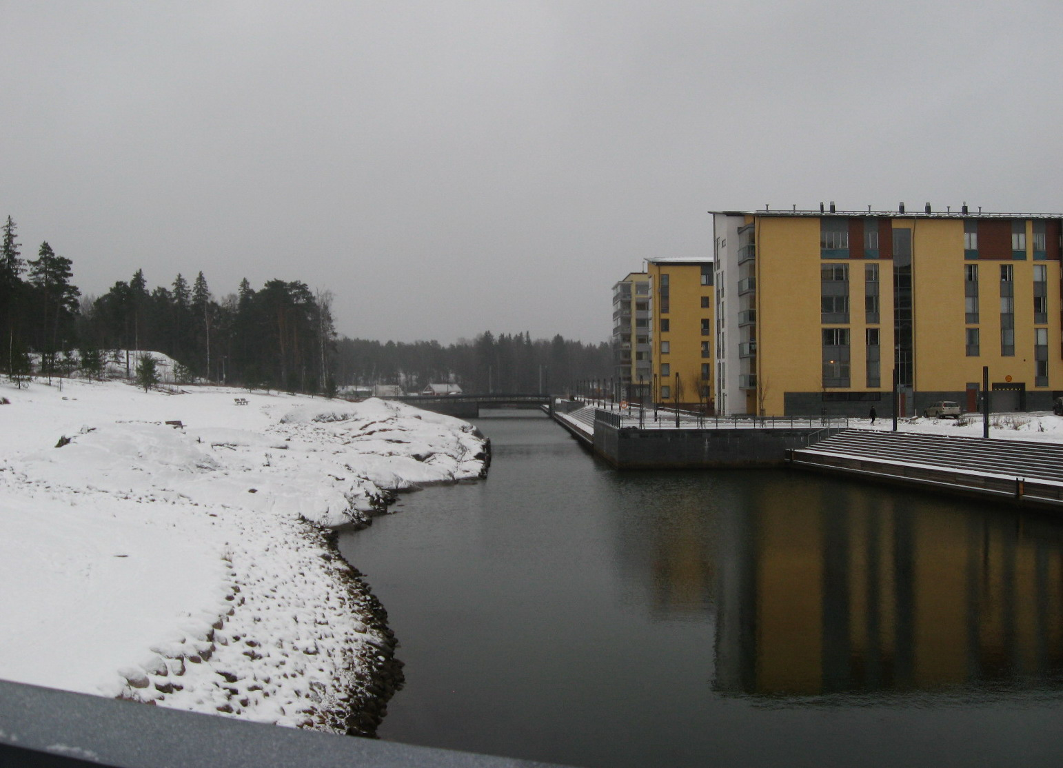 Uutela Channel, Aurinkolahti, Helsinki, Finland. Photo taken southward.